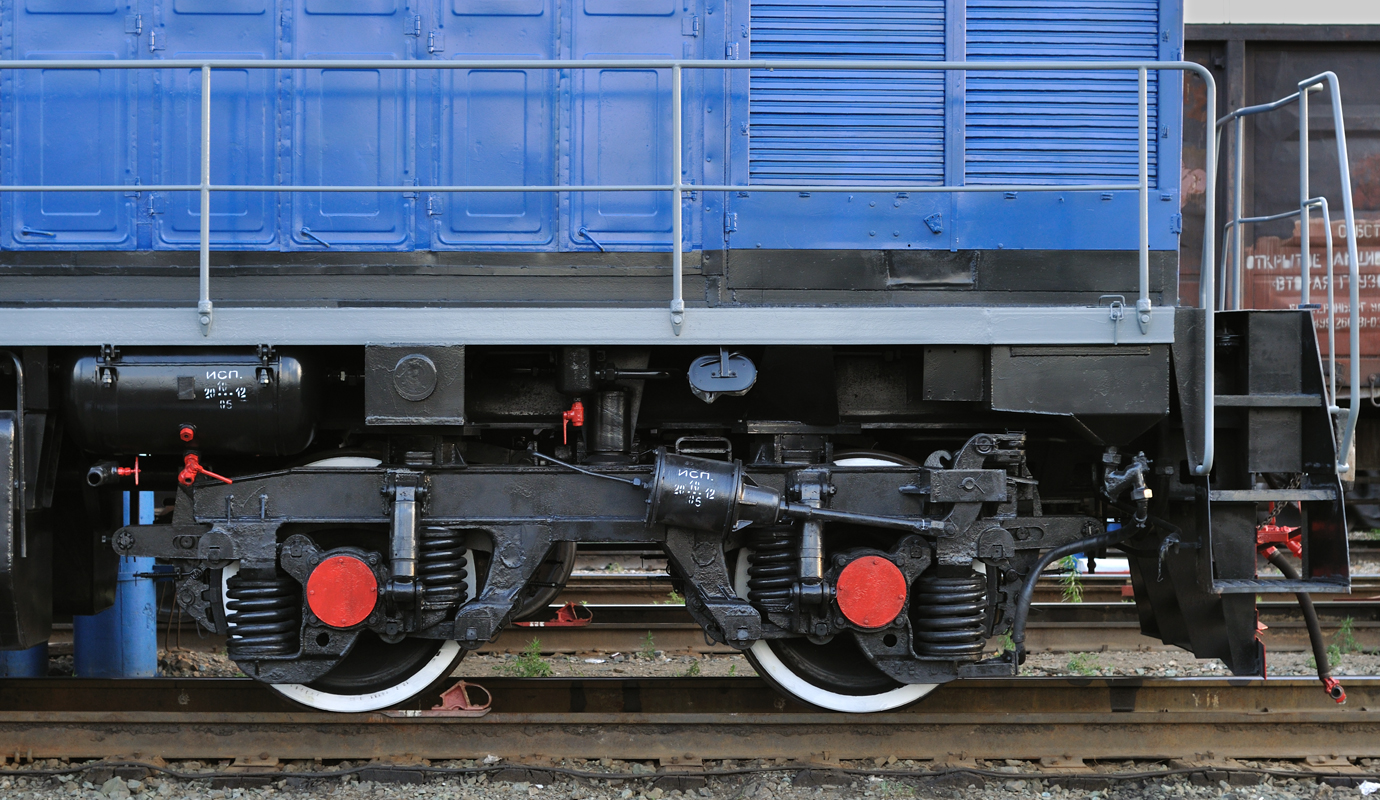 Wheel truck of shunter TGM6D-0269, Toliatti, Russia